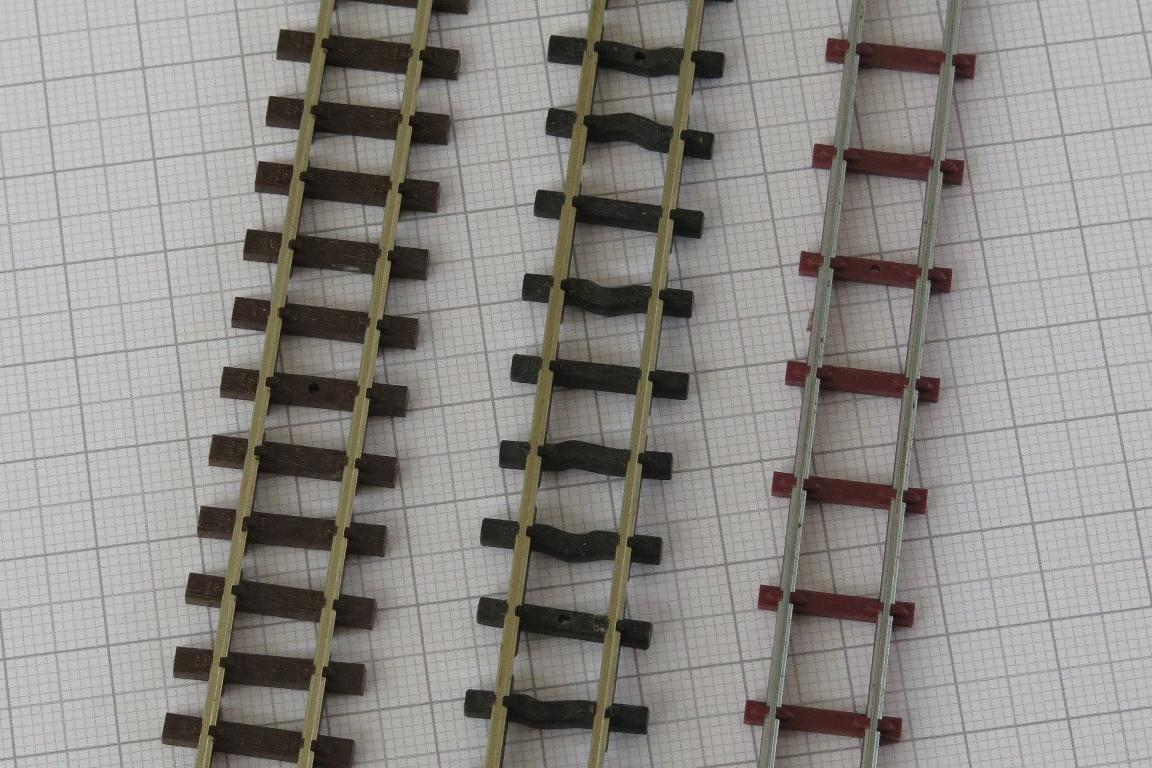 HOn30, HOn2½, OO9, HO9 or HOe gauge track with a model gauge of 9 mm (0.354 in). From left to right: narrow gauge railways track, field railway track and Decauville system track.